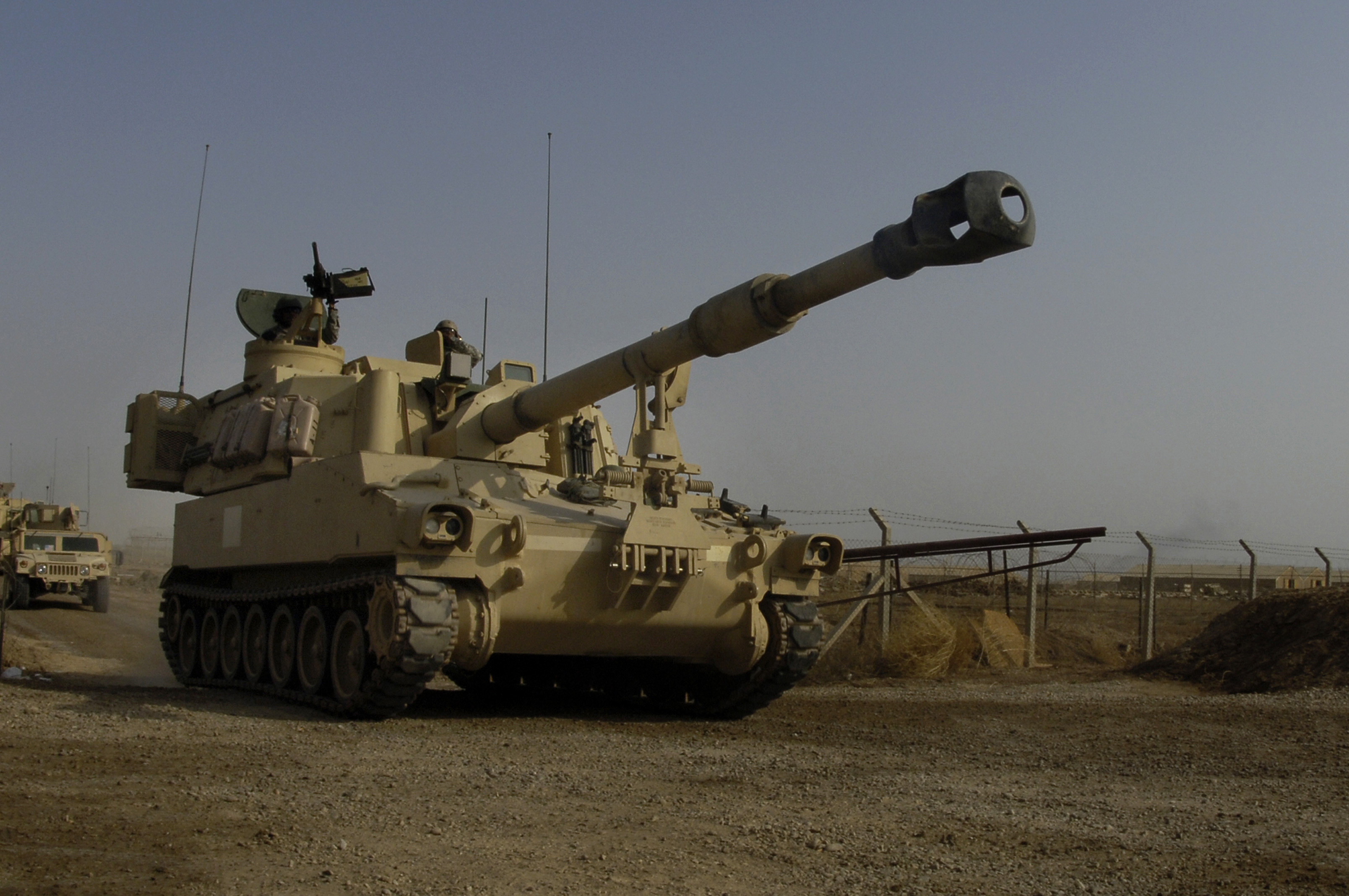 A M109 A6 Paladin Self-propelled howitzer